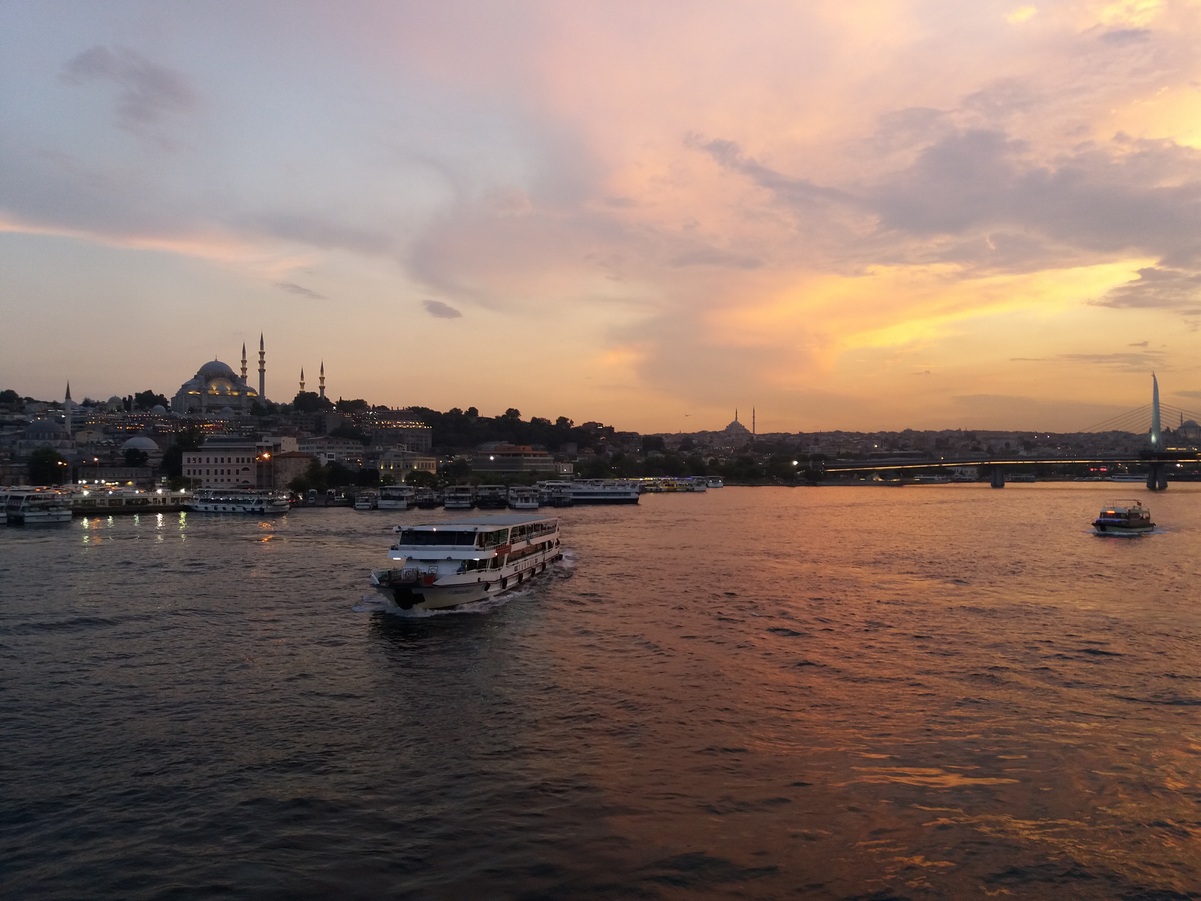 The Golden Horn, Istanbul.